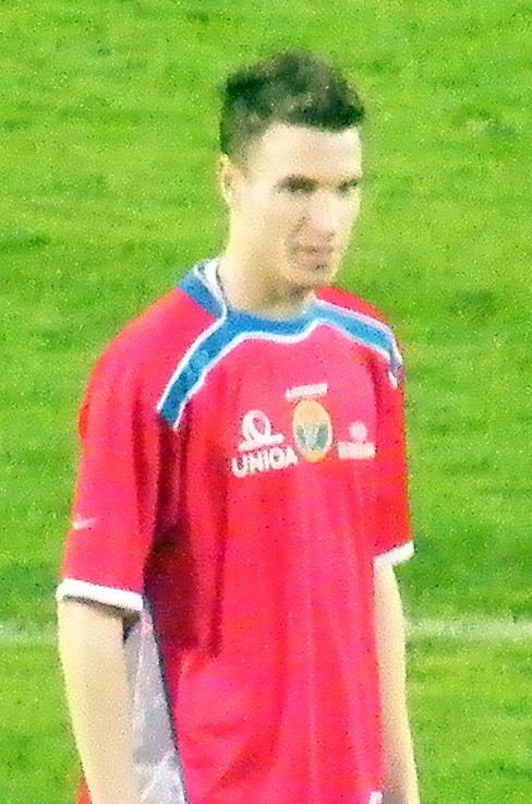 Gergő Beliczky Hungarian football player